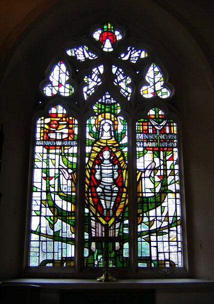 All Saints church Benhilton - window. The church 938053 is Anglican but of the Catholic tradition. This stained glass window depicts the Virgin Mary with Jesus. The text reads "As in Adam all die, even so in Christ shall all be made alive" (1 Corinthians chapter 15 verse 22).